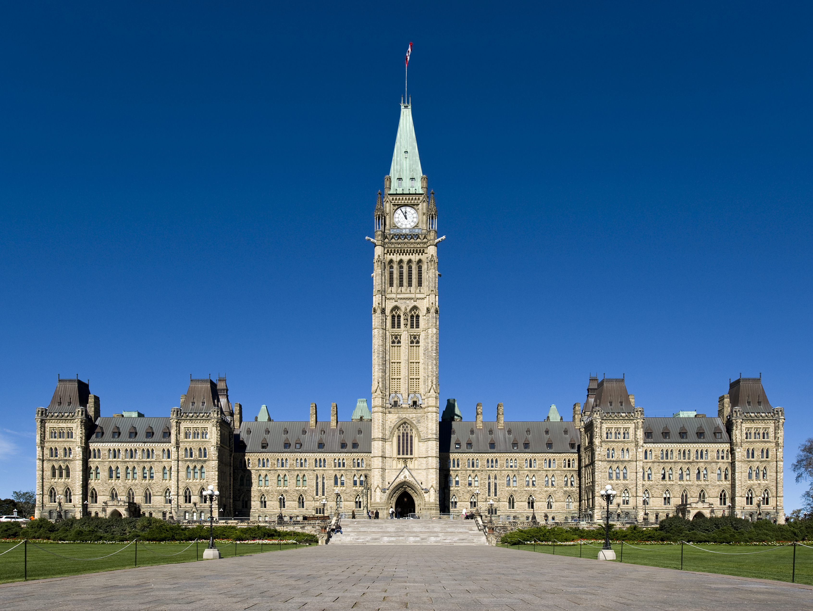 The Centre Block, Canadian Parliament building, with the Peace Tower in front, Ottawa, Southern Ontario.